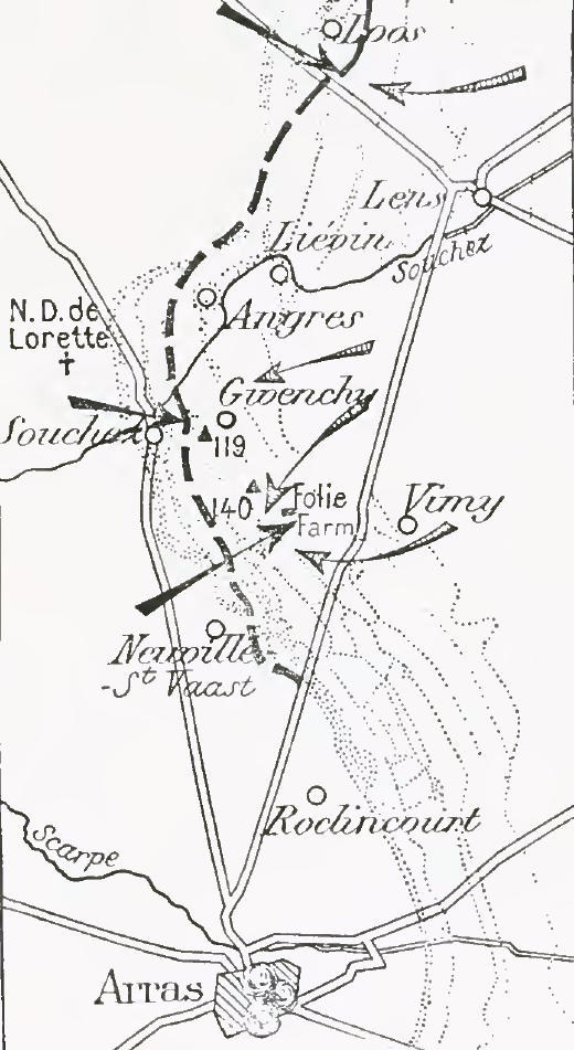 French 10th Army attack, Artois, September 1915